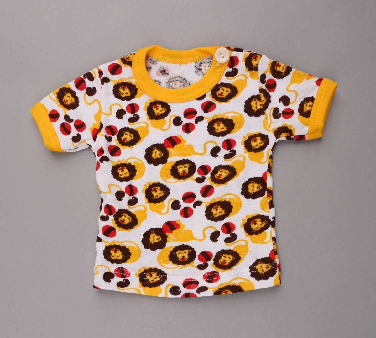 Cotton underwear for children produced by Janus at Espeland outside Bergen, Norway (object no. NTMT.01259, The Norwegian Knitting Industry Museum).